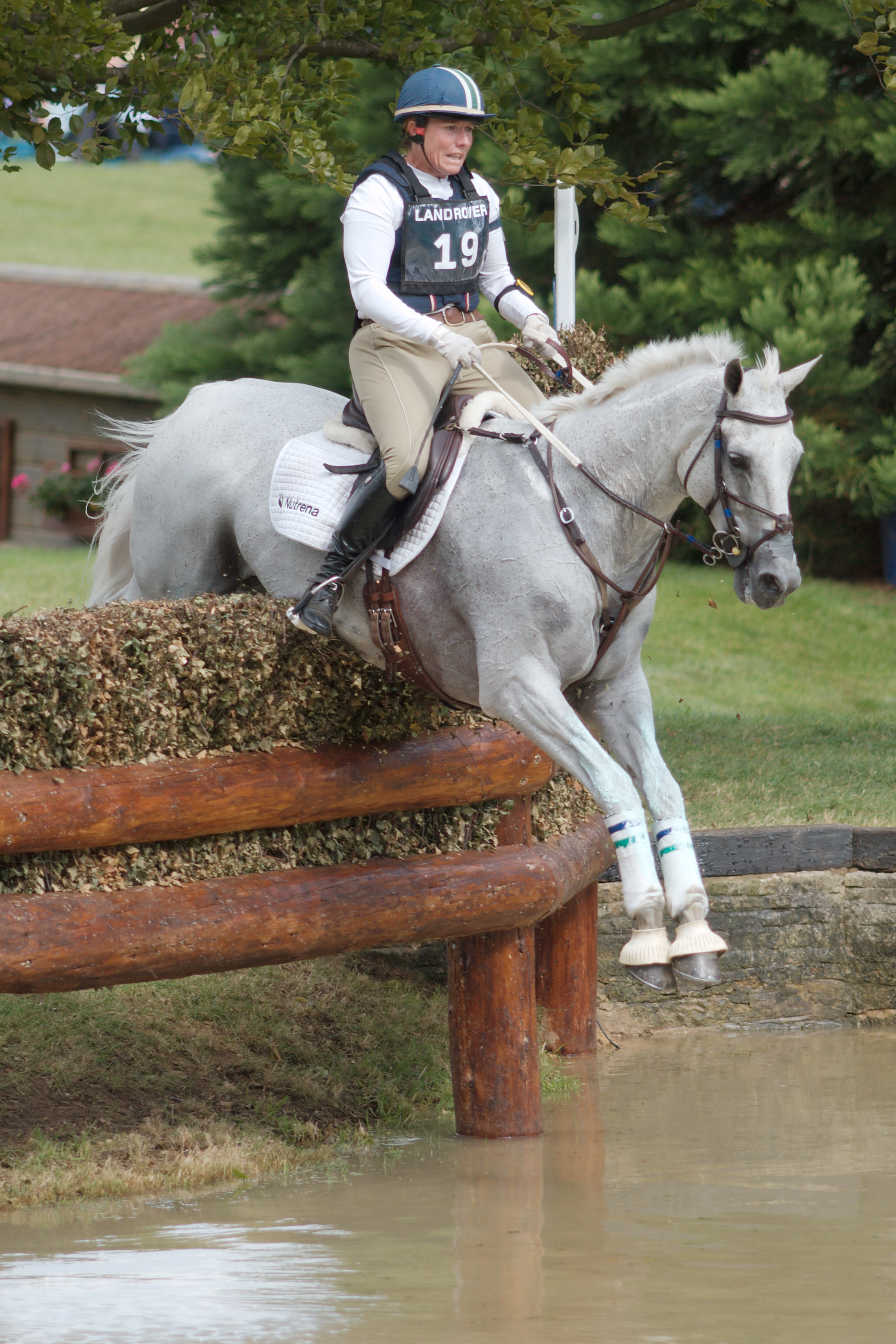 Rebecca Holder and Courageous Comet jump into the water at the Trout Hatchery during the cross country phase of Burghley Horse Trials 2009.